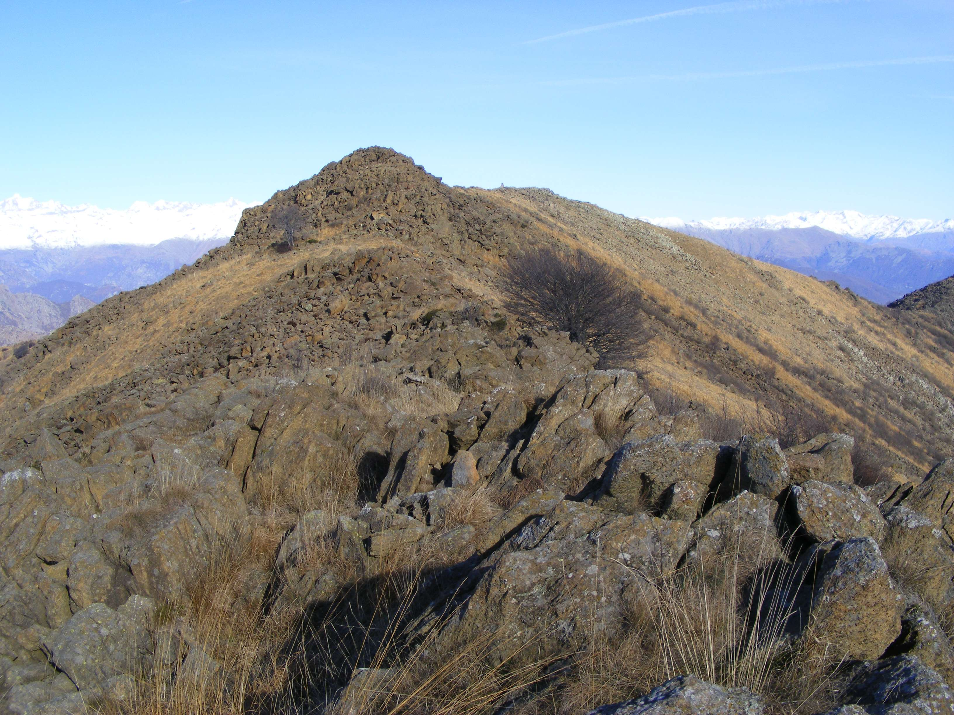 Mount Colombano (Italy, province of Torino)